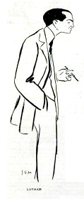 Caricature of Hubert Latham in "La vie parisienne"